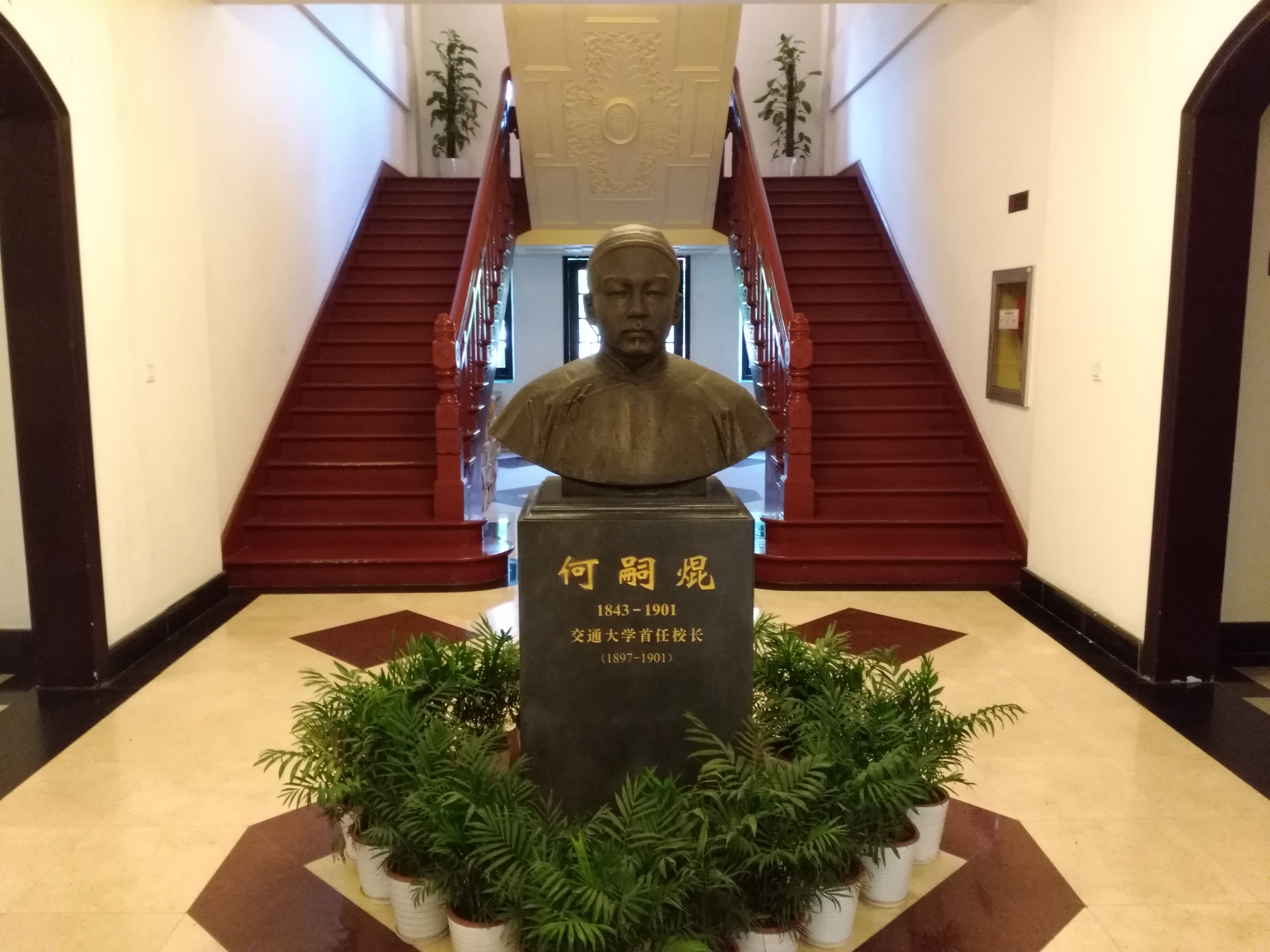 First President of Jiaotong University